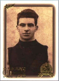 Photo of Albert Chadwick taken before 1928